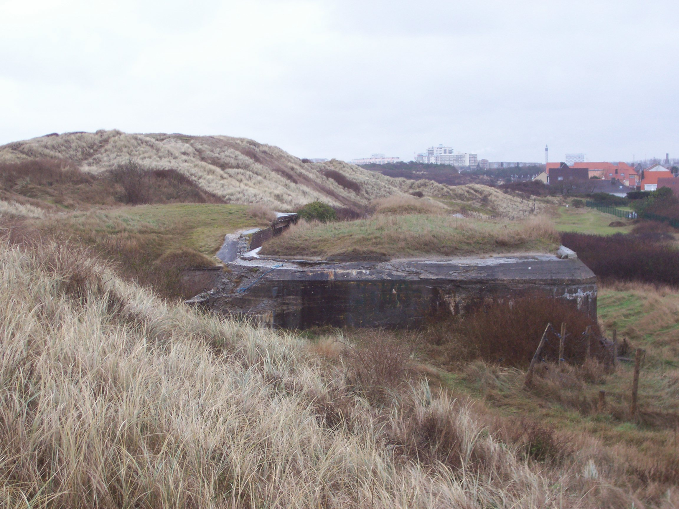 Sangatte, Pas de Calais, France.